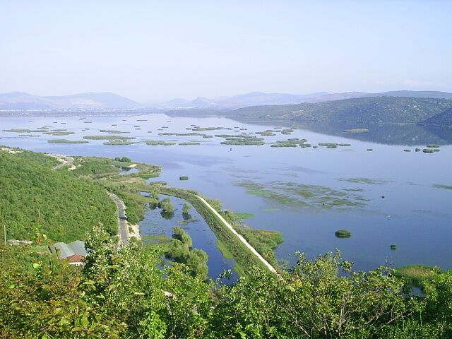 Hutovo Blato bird reservation in southern Bosnia-Herzegovina